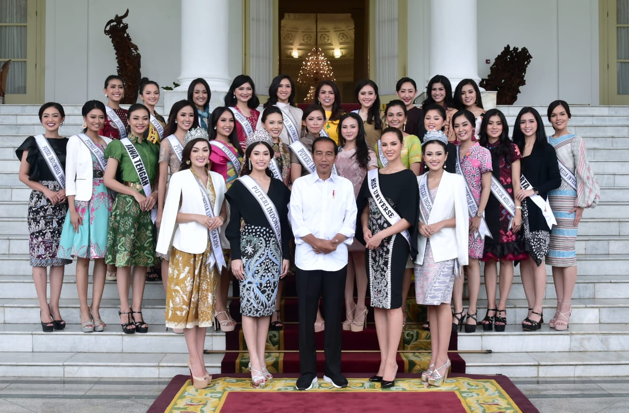 Puteri Indonesia 2019 finalists with President Joko Widodo on steps of Bogor Palace. Front row, left to right: Puteri Indonesia Lingunkan (first runner up) Jolene Marie Rotinsulu, Puteri Indonesia 2019 winner Frederika Cull, President Joko Widodo, Miss Universe 2018 Catriona Gray, Puteri Indonesia Pariwisata (second runner up) Jesica Fitriana Martasari Alfharisi.